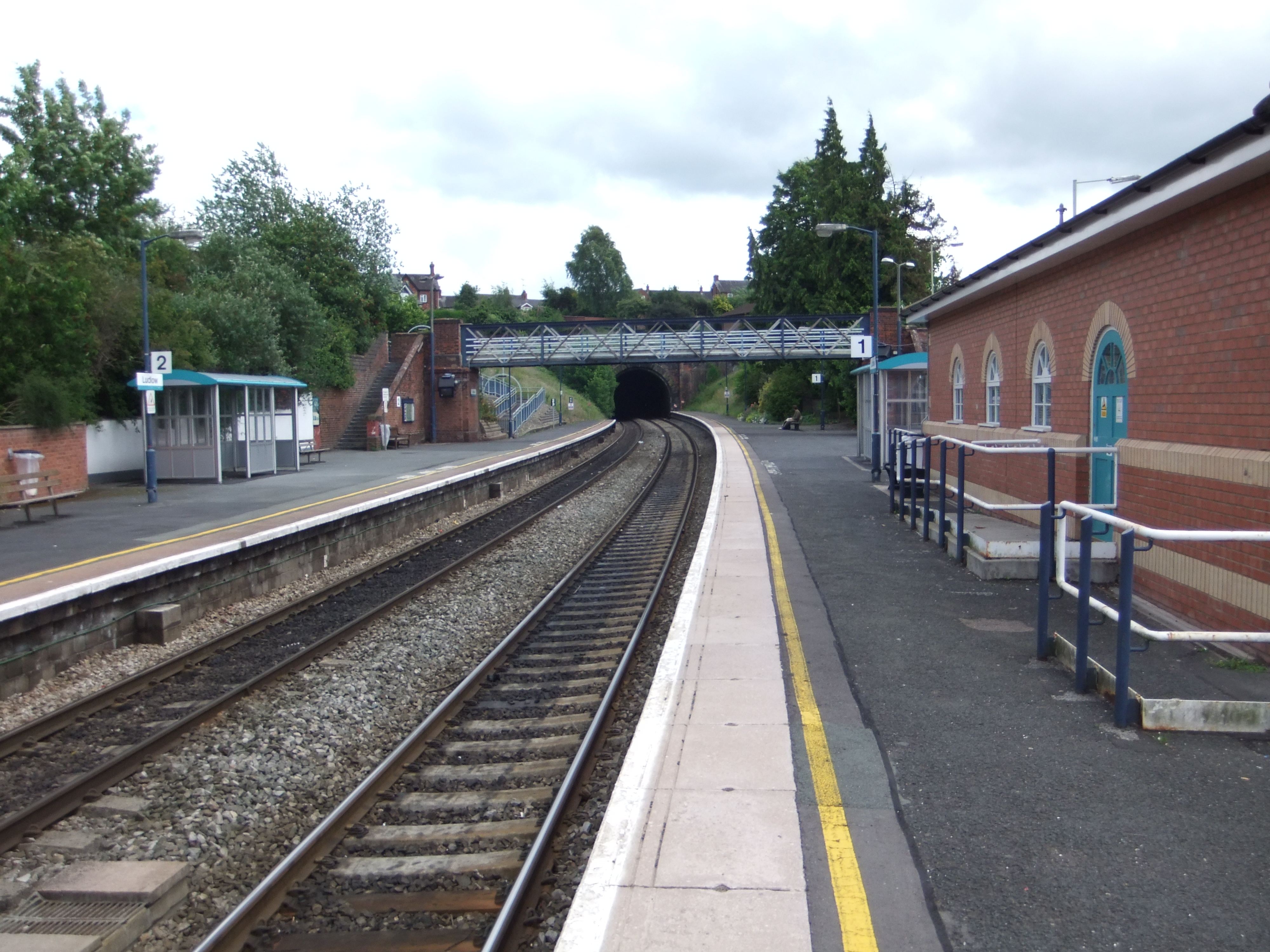 Ludlow railway station, Shropshire, England.